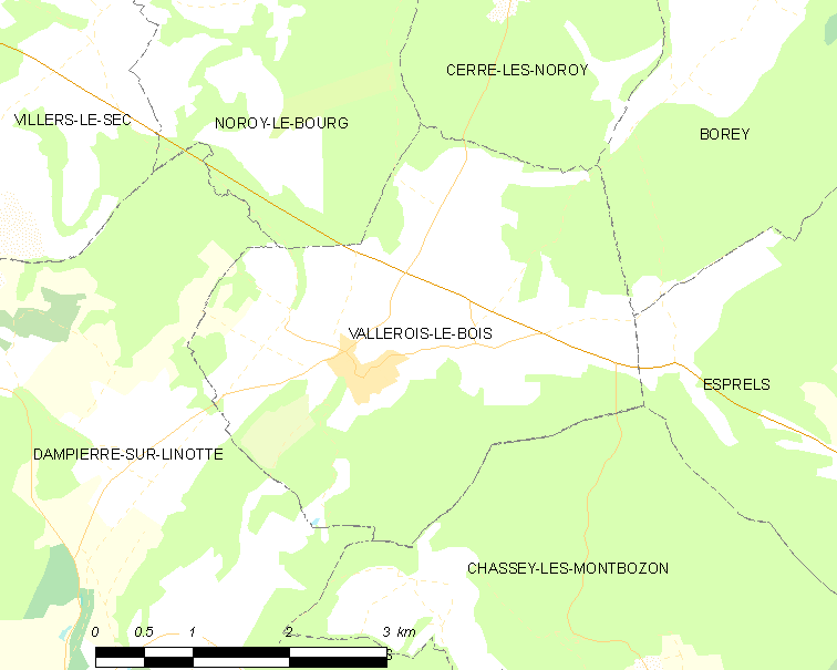 Map of French municipality